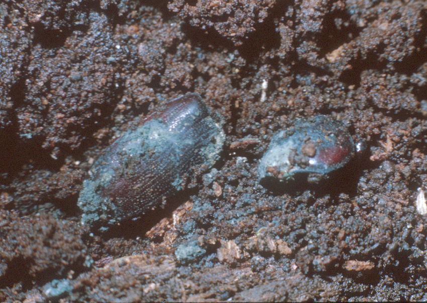 Remains of Oryctes rhinoceros adult infected with Metarhizium majus: Dipolog, Mindanao, Philippines